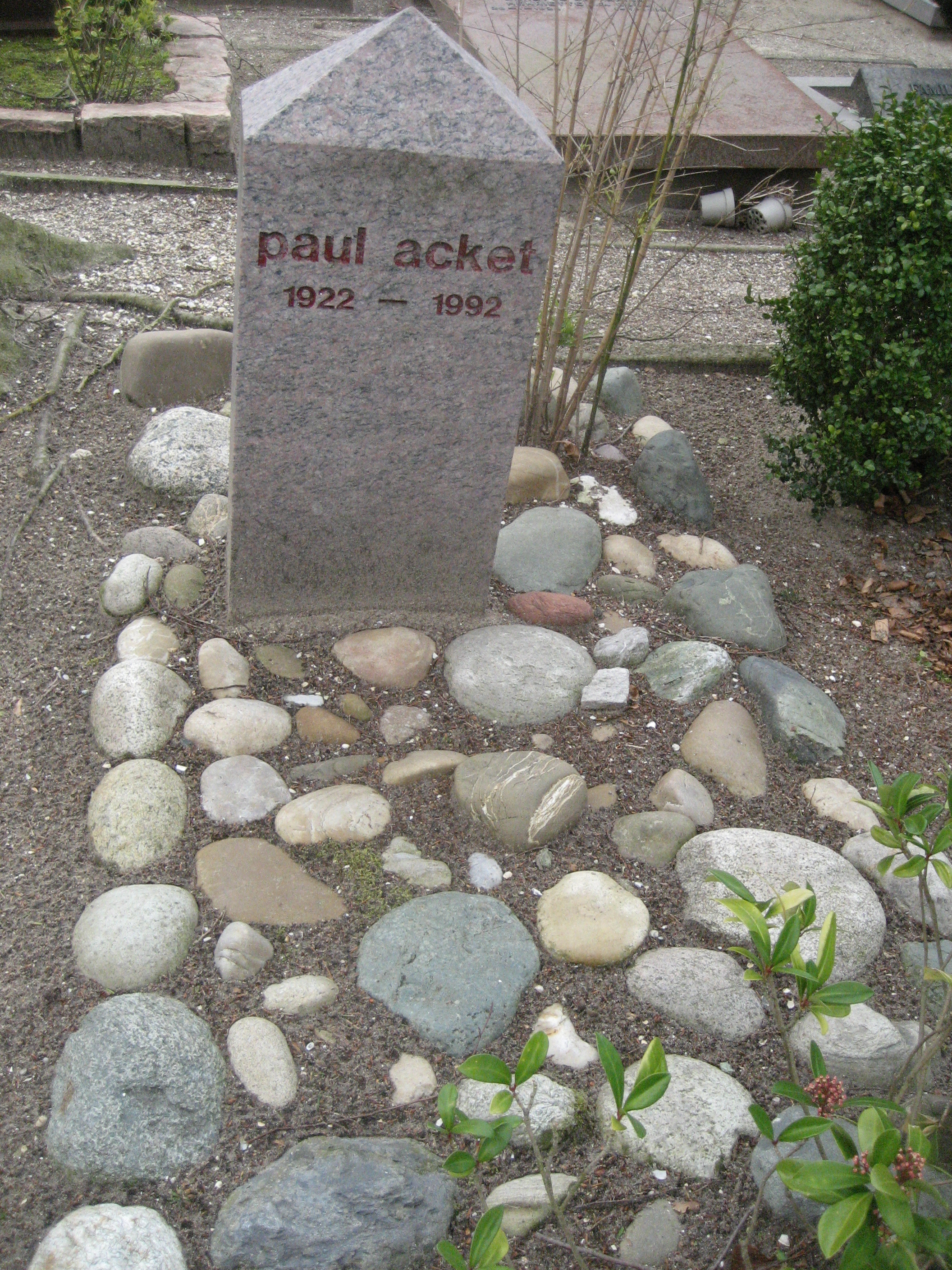 Grave of Paul Acket, Petrus Banden Cemetery, The Hague (The Netherlands)